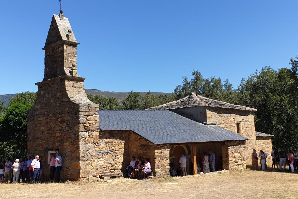 Ermita de San Roque en Valdavido con parte del tejado restaurado